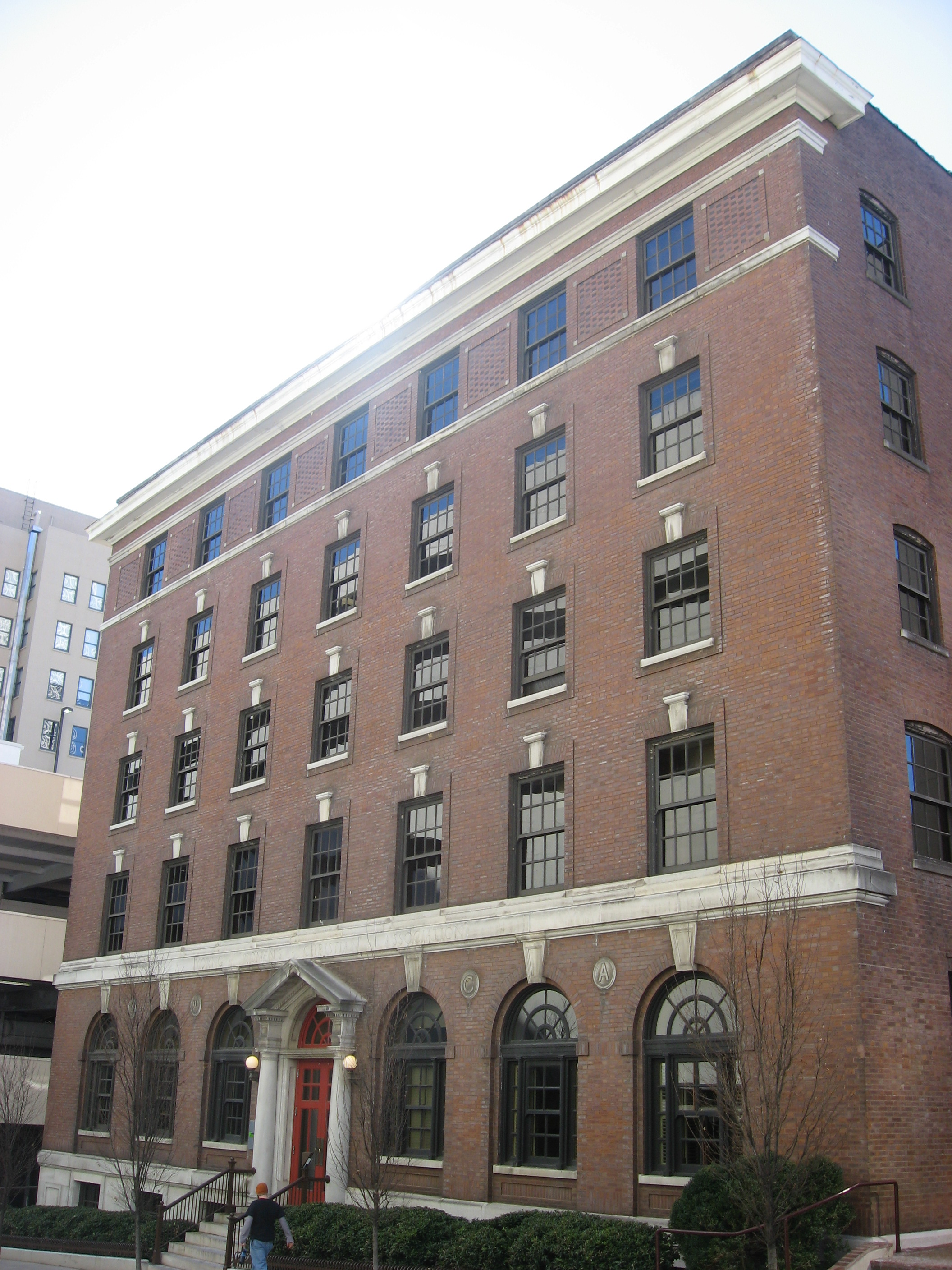 Front of the Young Women's Christian Association Building, located at 211 Seventh Avenue North in downtown Nashville, Tennessee, United States. Built in 1911, it is listed on the National Register of Historic Places.